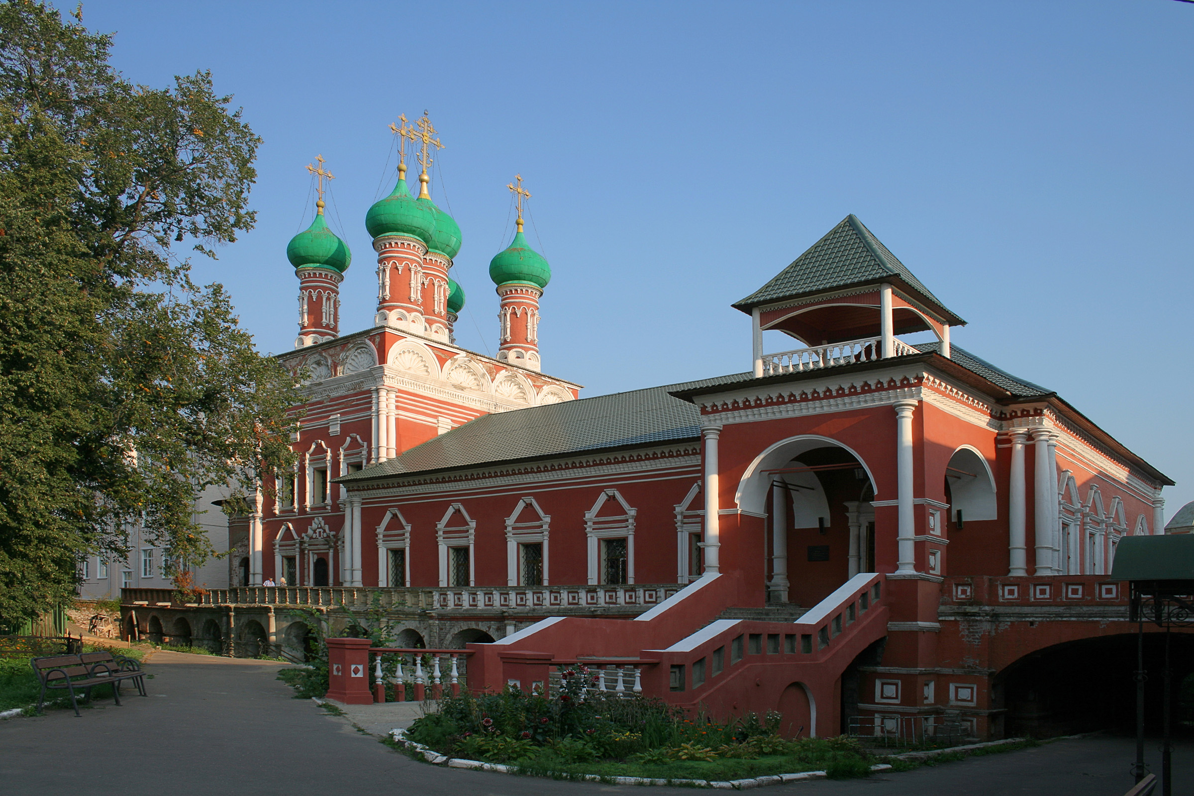 Vysokopetrovsky Monastery, Church Of St. Sergius Of Radonezh, about 1695